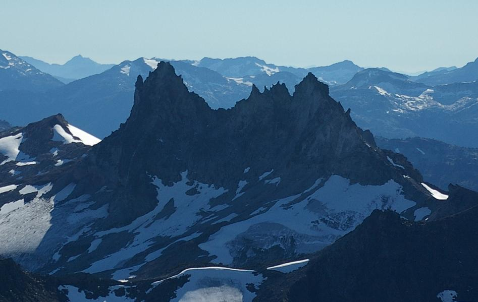 Mount Fee as seen from the northeast.